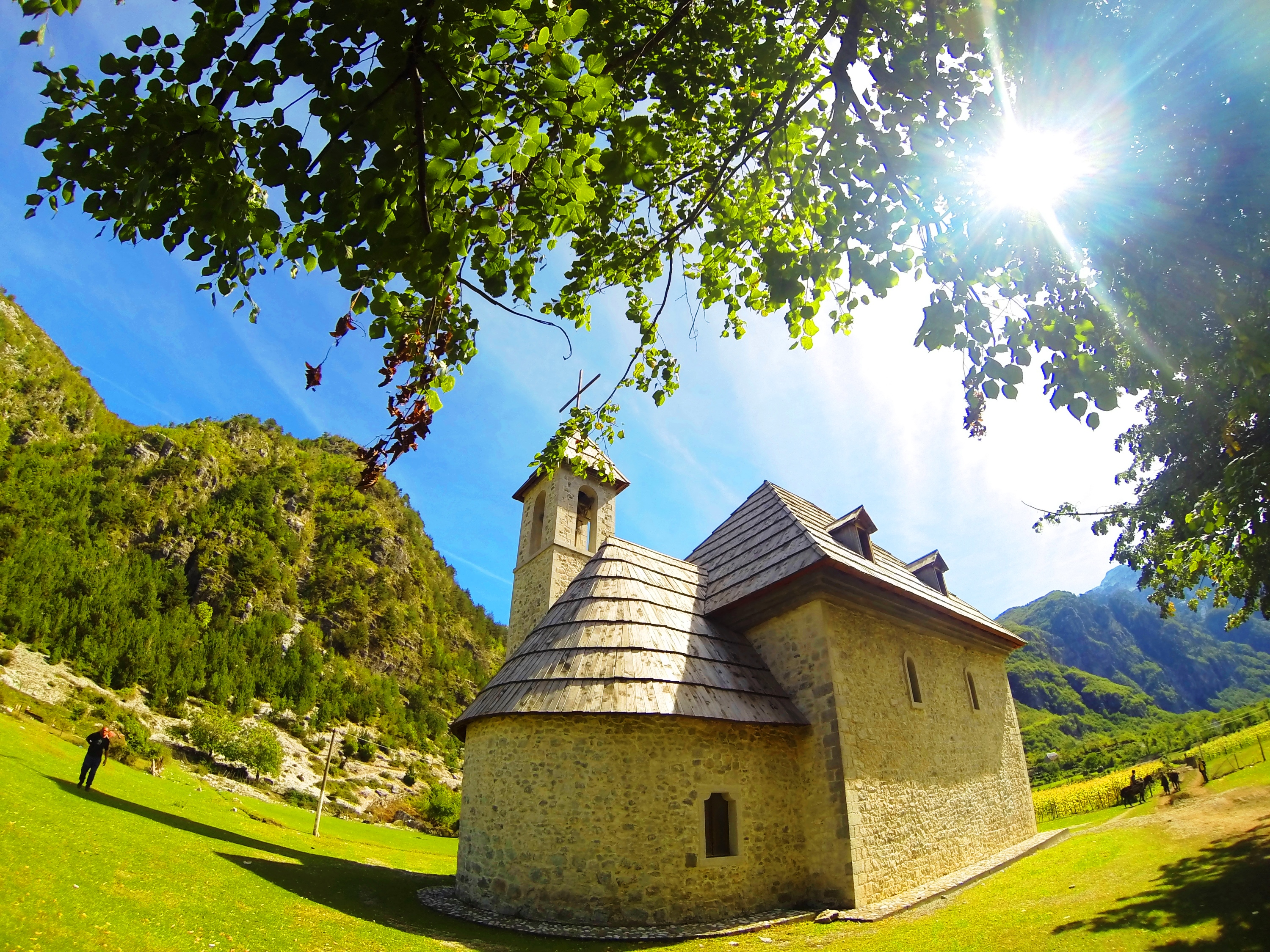 Kisha e Thethit